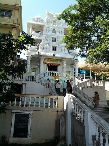 Wargal Temple gopuram